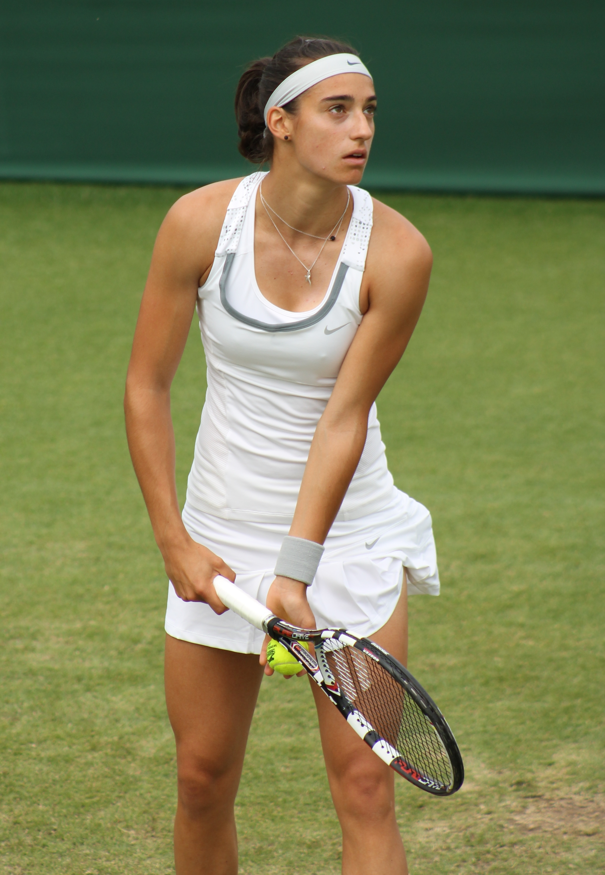 Caroline Garcia, 2013 Wimbledon Qualifying Tournament